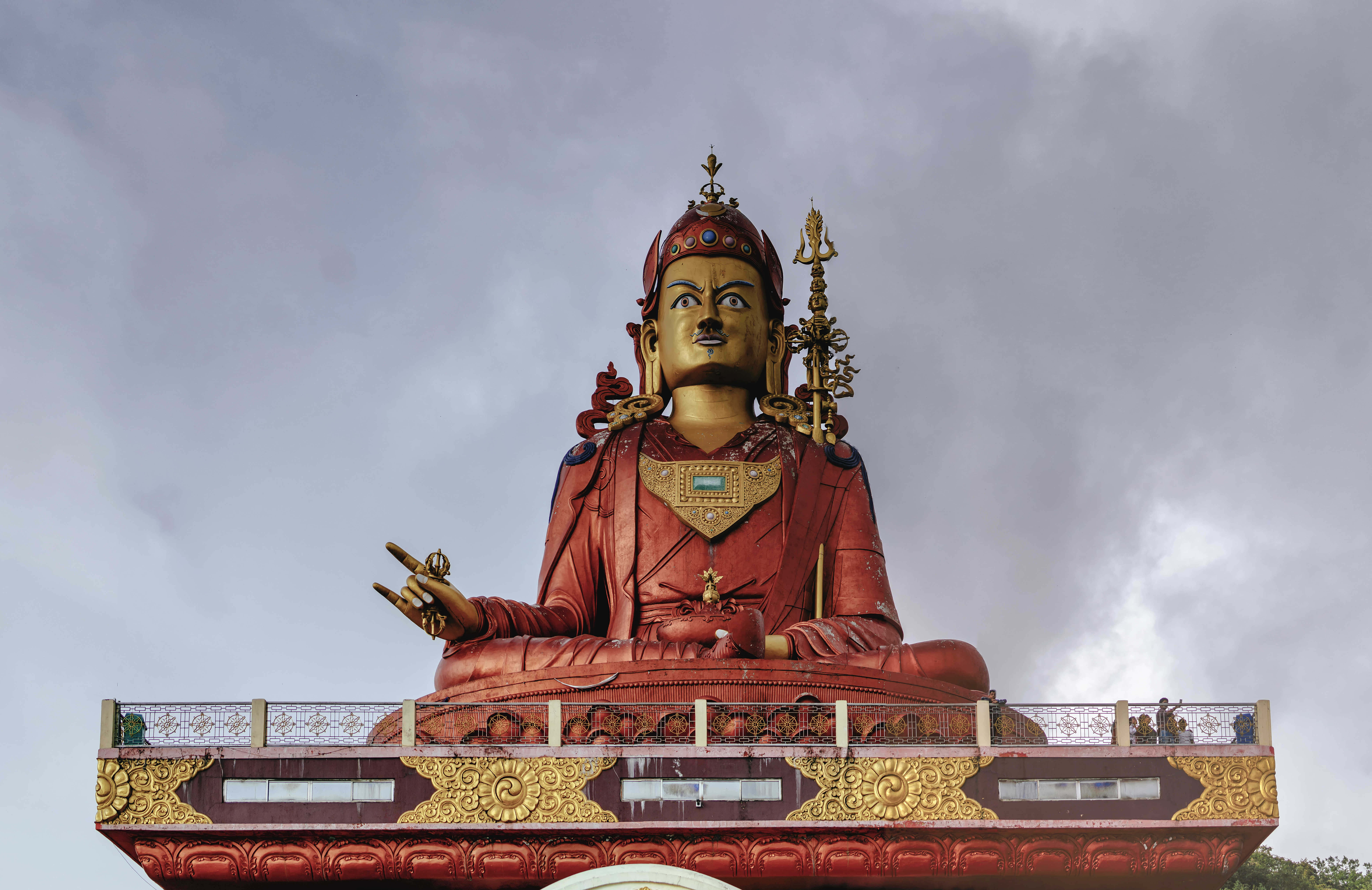 Statue of the Guru Padmasambhava (Guru Rinpoche), the patron saint of Sikkim. This is situated at the top of Samdruptse Hill, Namchi in Sikkim. This is the largest statue of Guru Padmasambhava in the world.